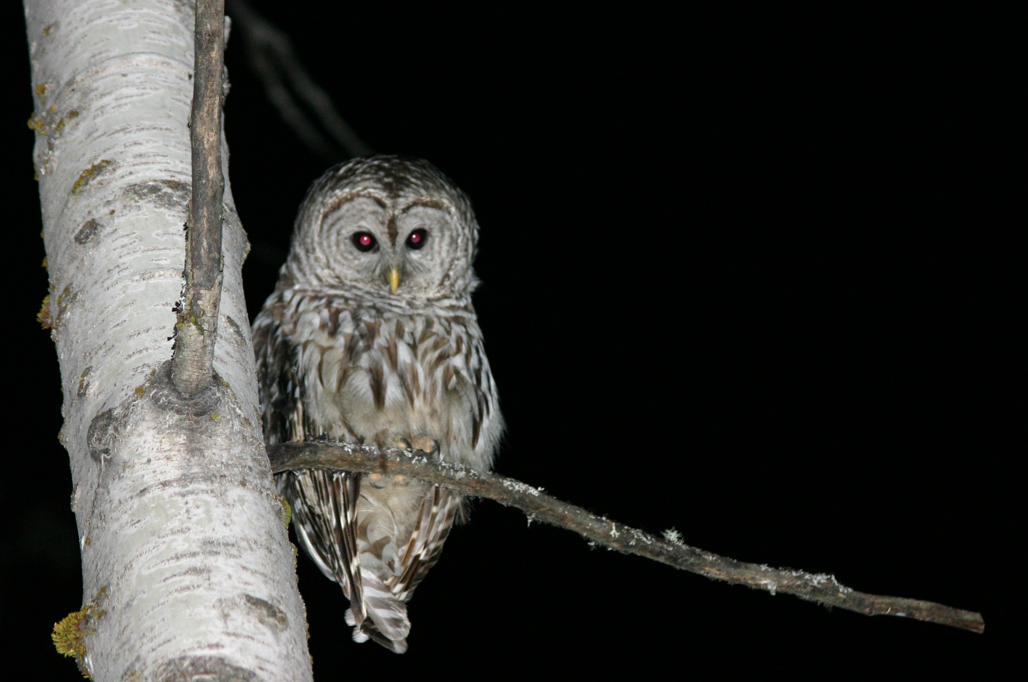 A Barred Owl Strix varia perched on a birch tree branch at night, at Blanket Creek Provincial Park, British Columbia, Canada.